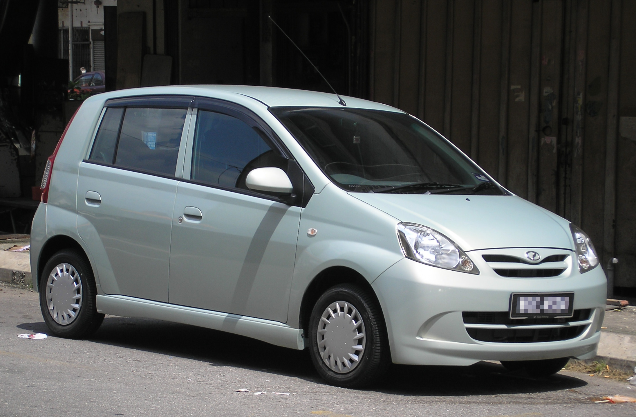 The front of a first generation Perodua Viva (EZ), in Pudu, Kuala Lumpur, Malaysia.